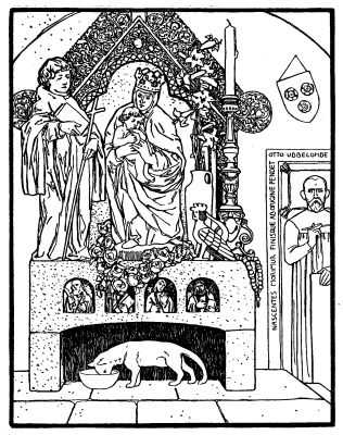 Illustration by Otto Ubbelohde to the fairy tale Cat and Mouse in Partnership